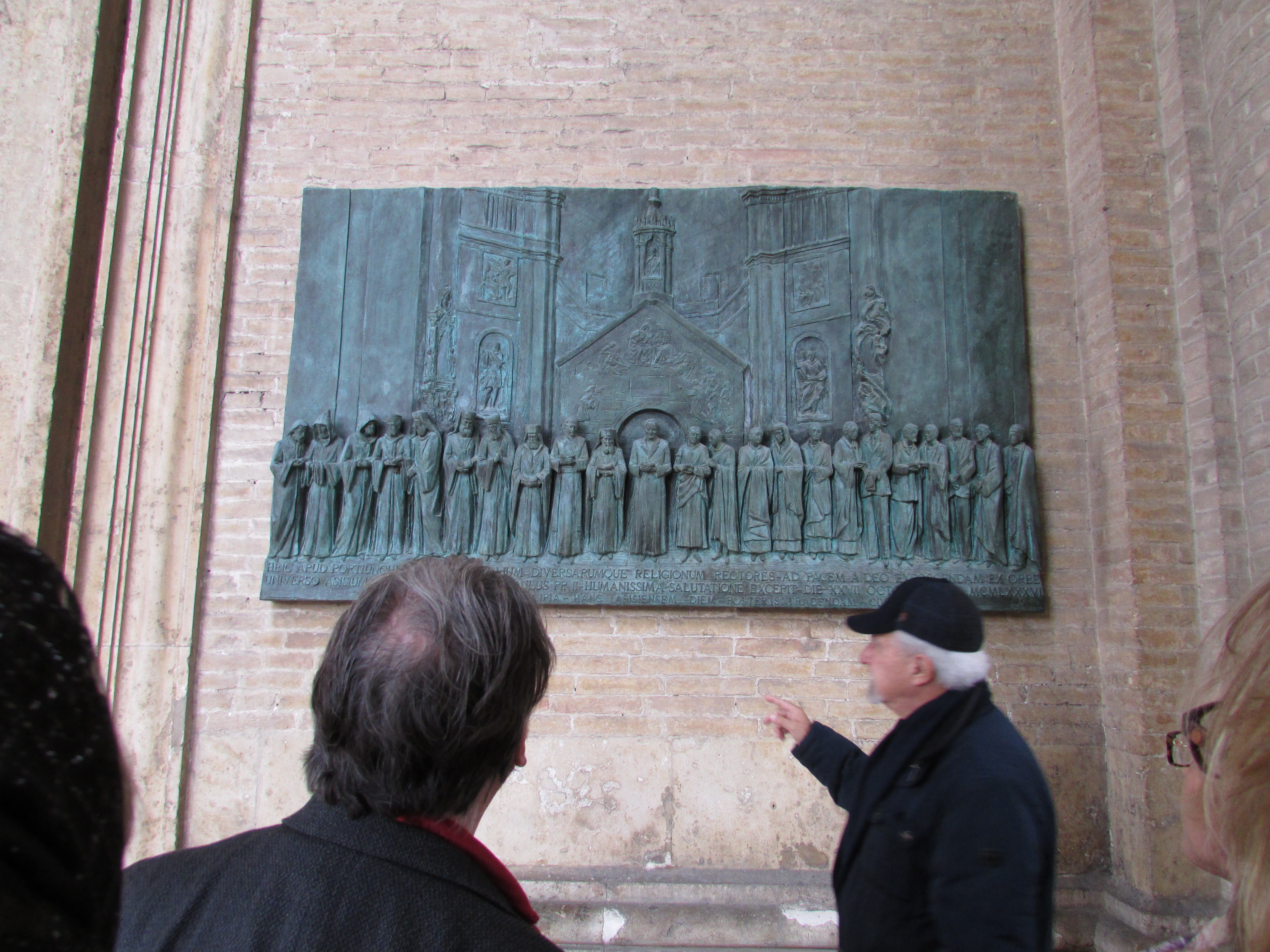 Memorial engraving of the first "World Day of Prayer for Peace" in Assisi (1986), with Pope John Paul II hosting religious leaders from around the world.